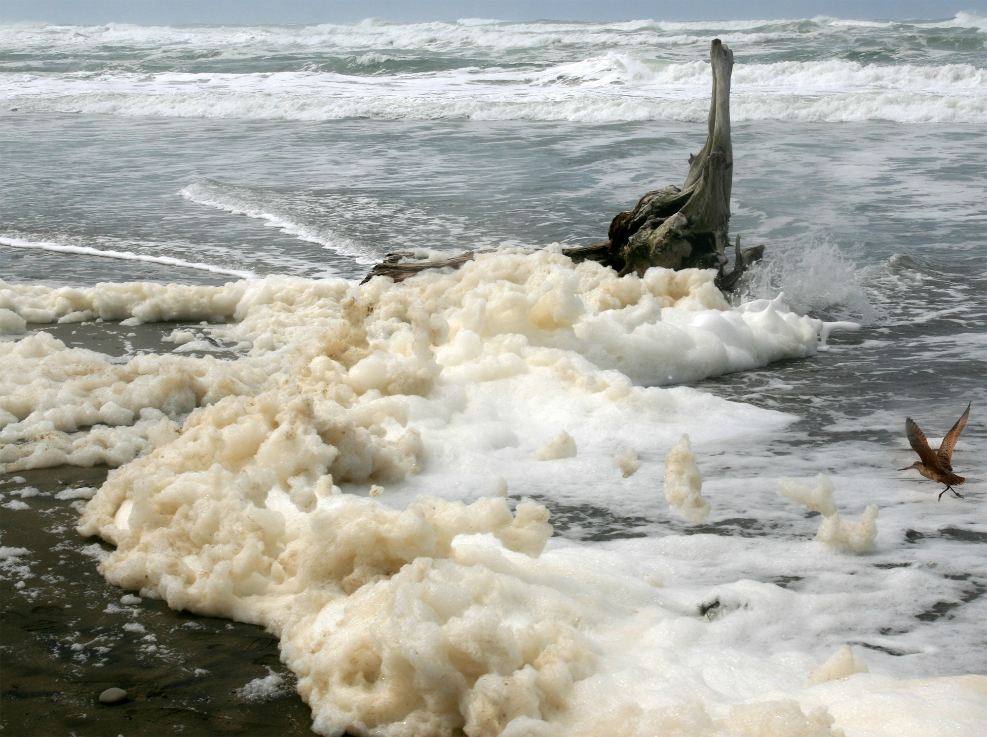 Sea foam and Limosa fedoa at Ocean Beach in San Francisco